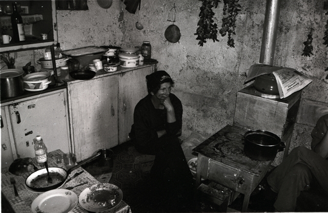 Shepherds and their livstock spent summer on the high plateaux.